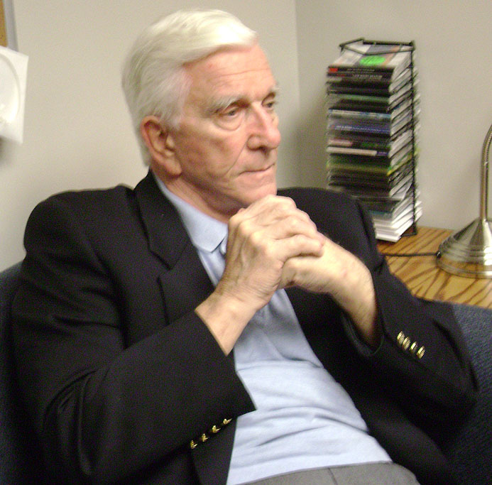 Leslie Nielsen after a student meet-and-greet at Moravian College in Bethlehem, Pennsylvania